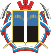 Zapolyarny (Murmansk oblast), proposal coat of arms